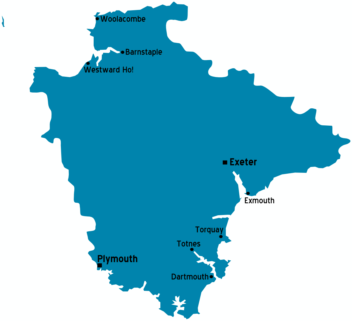 Map of Devon Source: :Image:UK map.svg map: England Map of: England